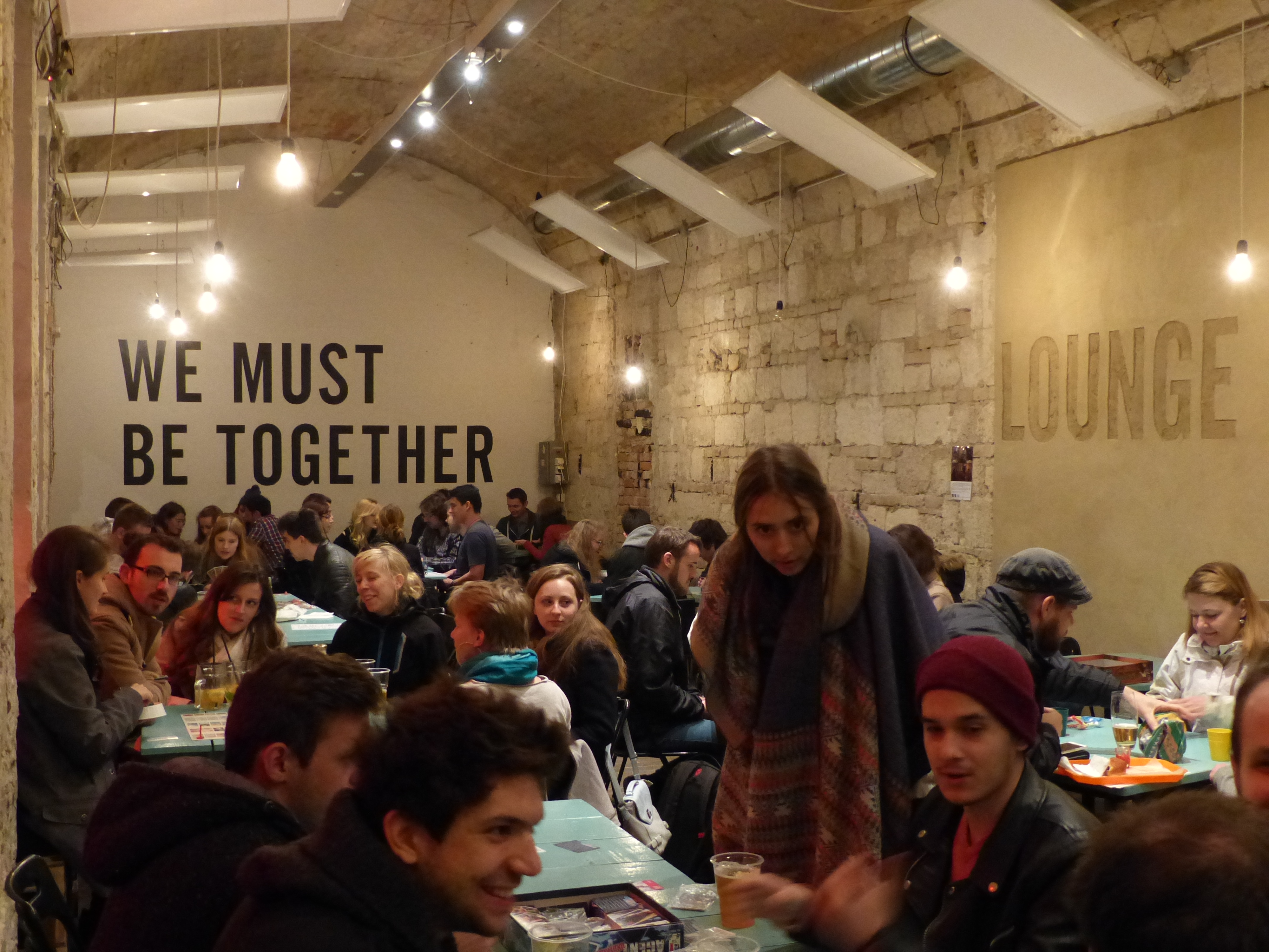 Denis Urubko lecture on the 27th of April, 2016. Ankert, romkocsma (ruinpub) in the Paulay street (33). Budapest, Hungary.